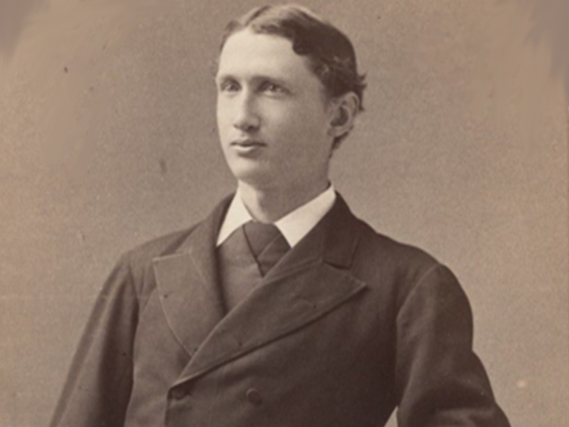 Dr Alfred Worcester (1855-1951), general practitioner in Waltham, Massachusetts. Photo from Harvard University Archives.